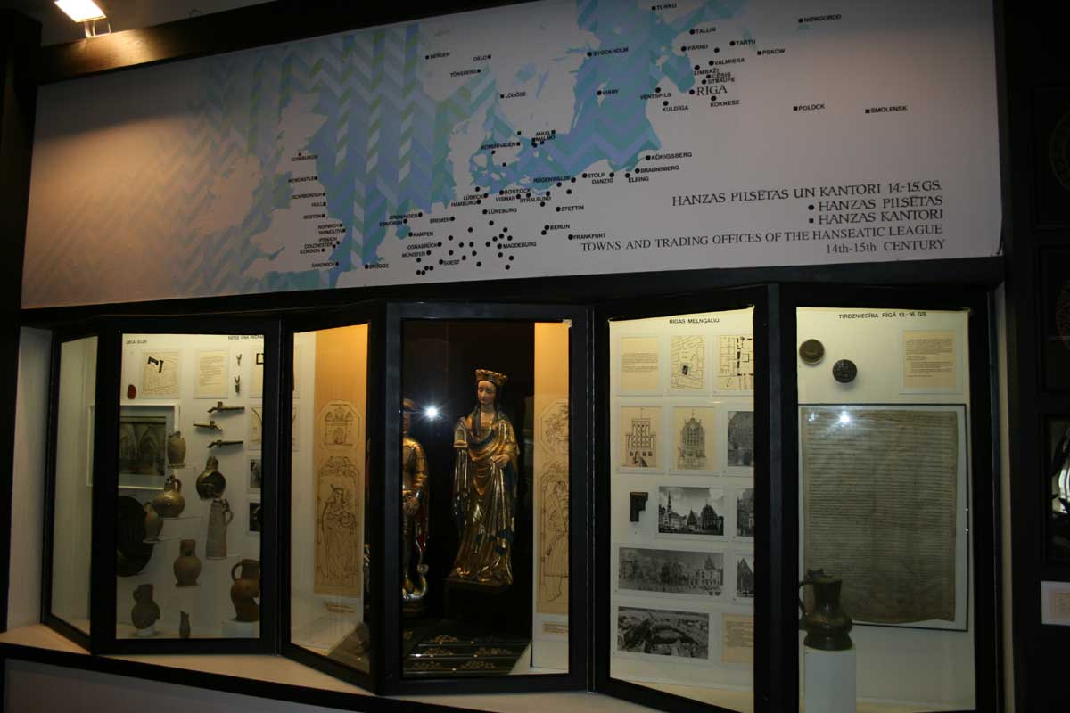 Interior view of the Museum of History of Riga and Navigation, Latvia